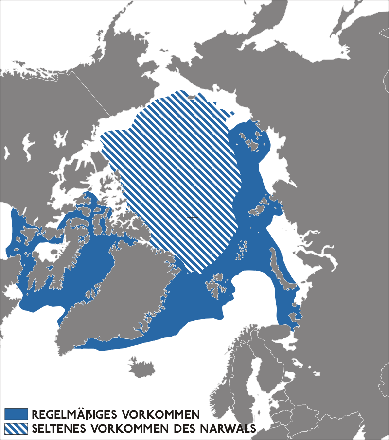 Verbreitung des Narwals. Narwhal distribution map Solid: Regular occurrence of Narwhal Striped: Incidental occurrence of Narwhal